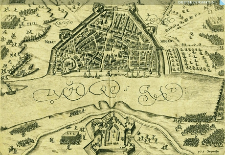 Siege of Nijmegen (1591)